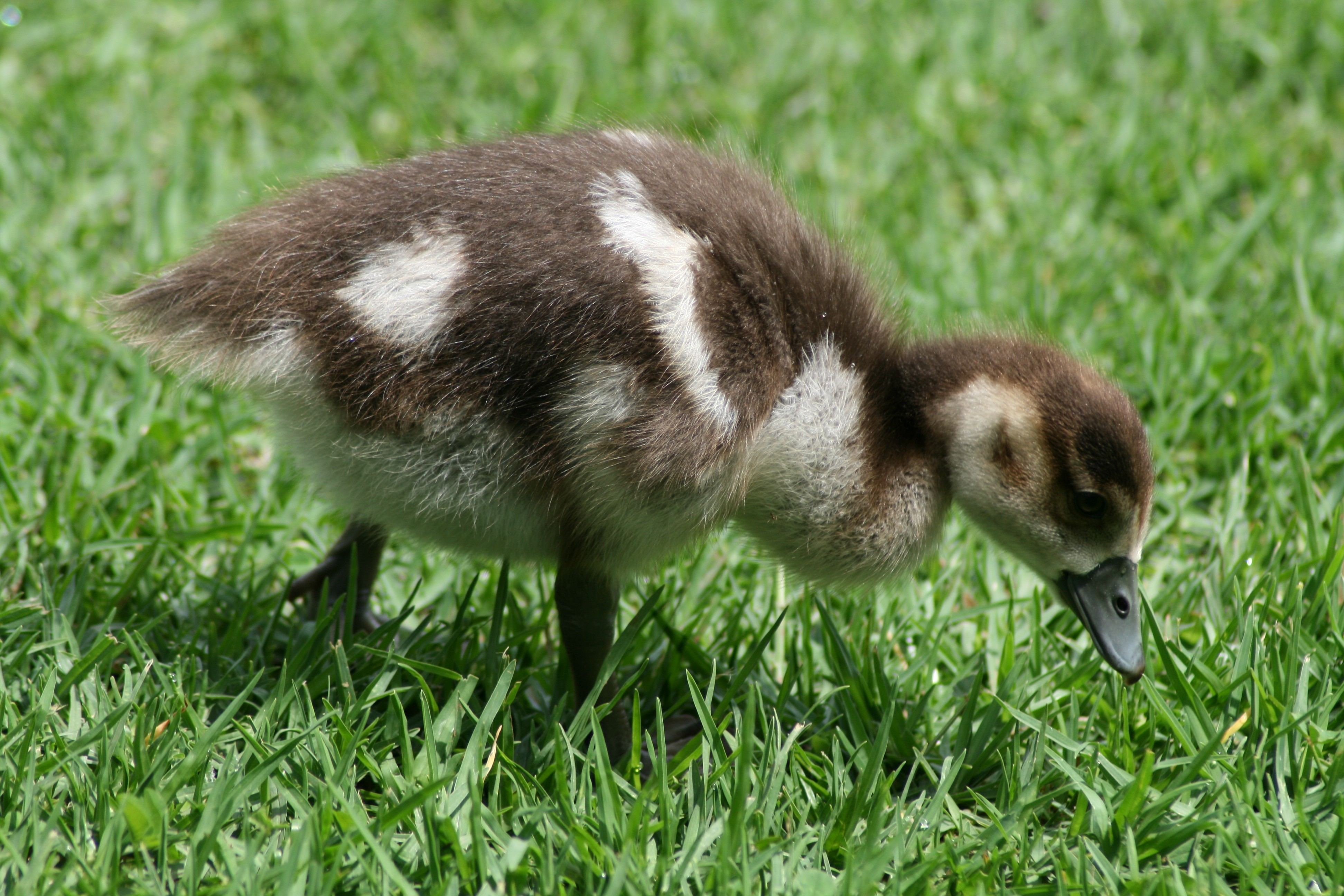 Egyptian Goose in KwaZulu-Natal, South Africa